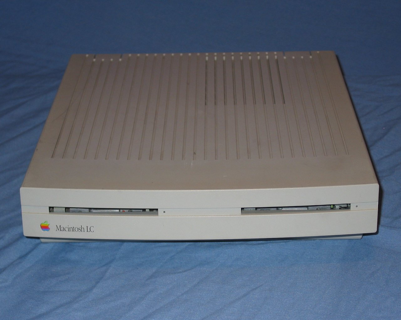 Front view of a first-generation Macintosh LC with two floppy drives.